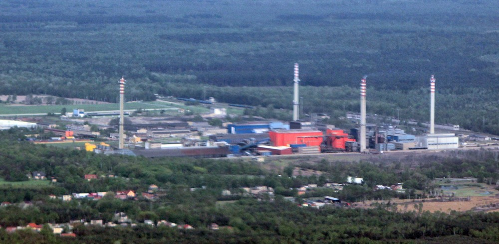 Zinc smelter in Miasteczko Śląskie, Poland.